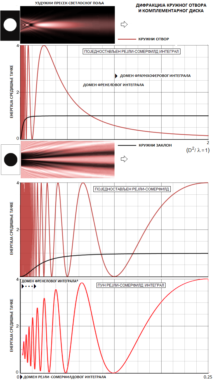 КОХЕРЕНТНА ФУНКЦИЈА ШИРЕЊА ИВИЦЕ